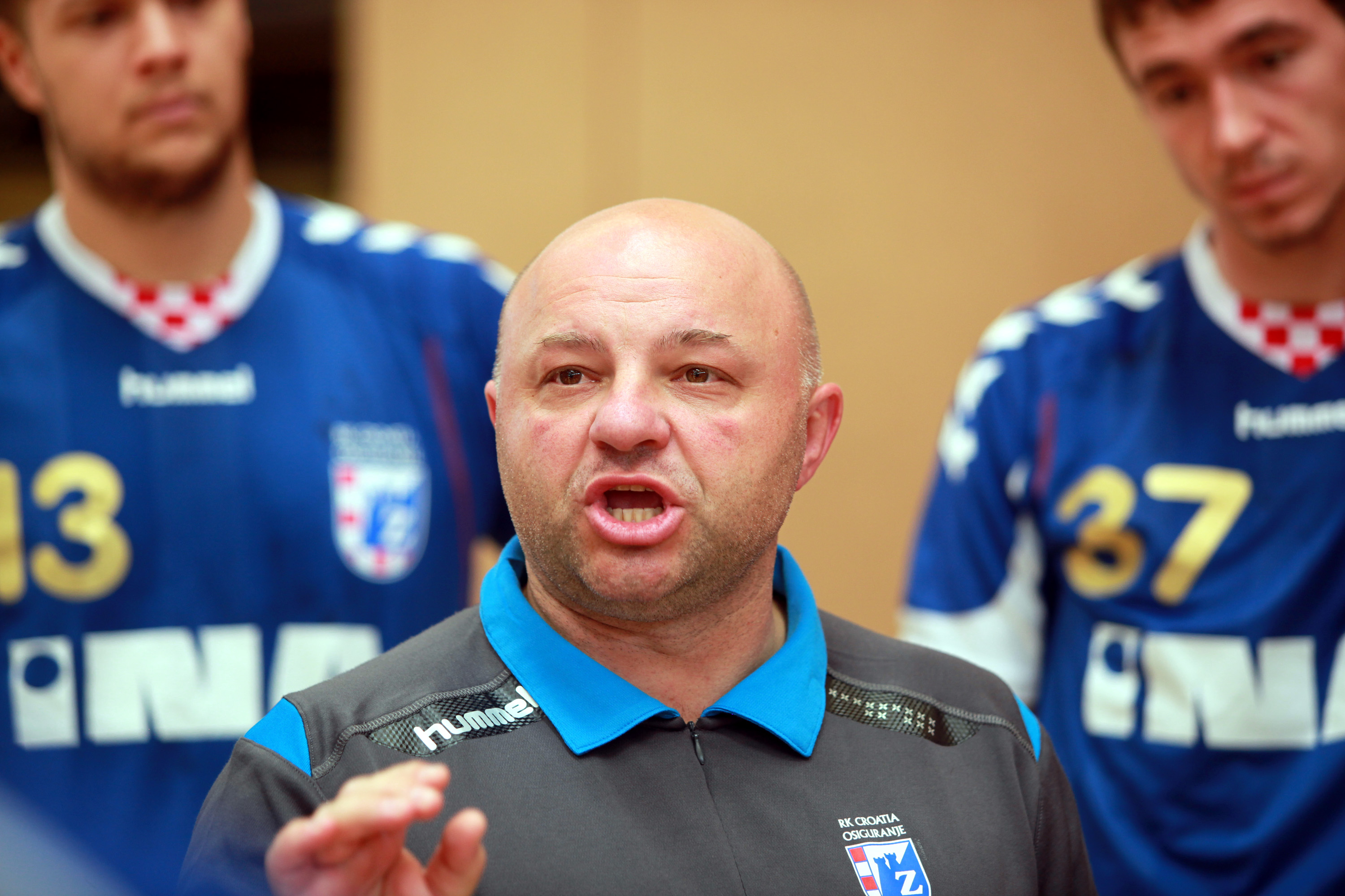 Boris Dvoršeka, coach of RK Zagreb, on August 17th, 2012 in Ehingen (Germany), during the Sparkassen Cup (formerly known as Schlecker Cup).